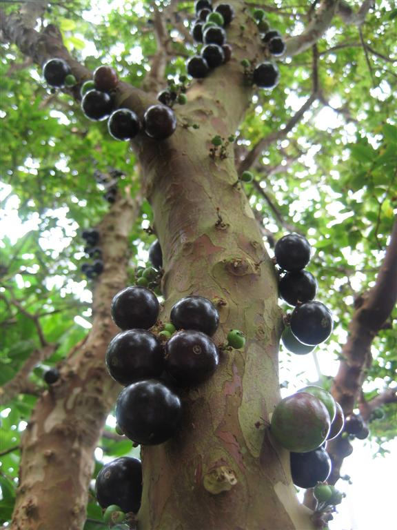 Jabuticaba